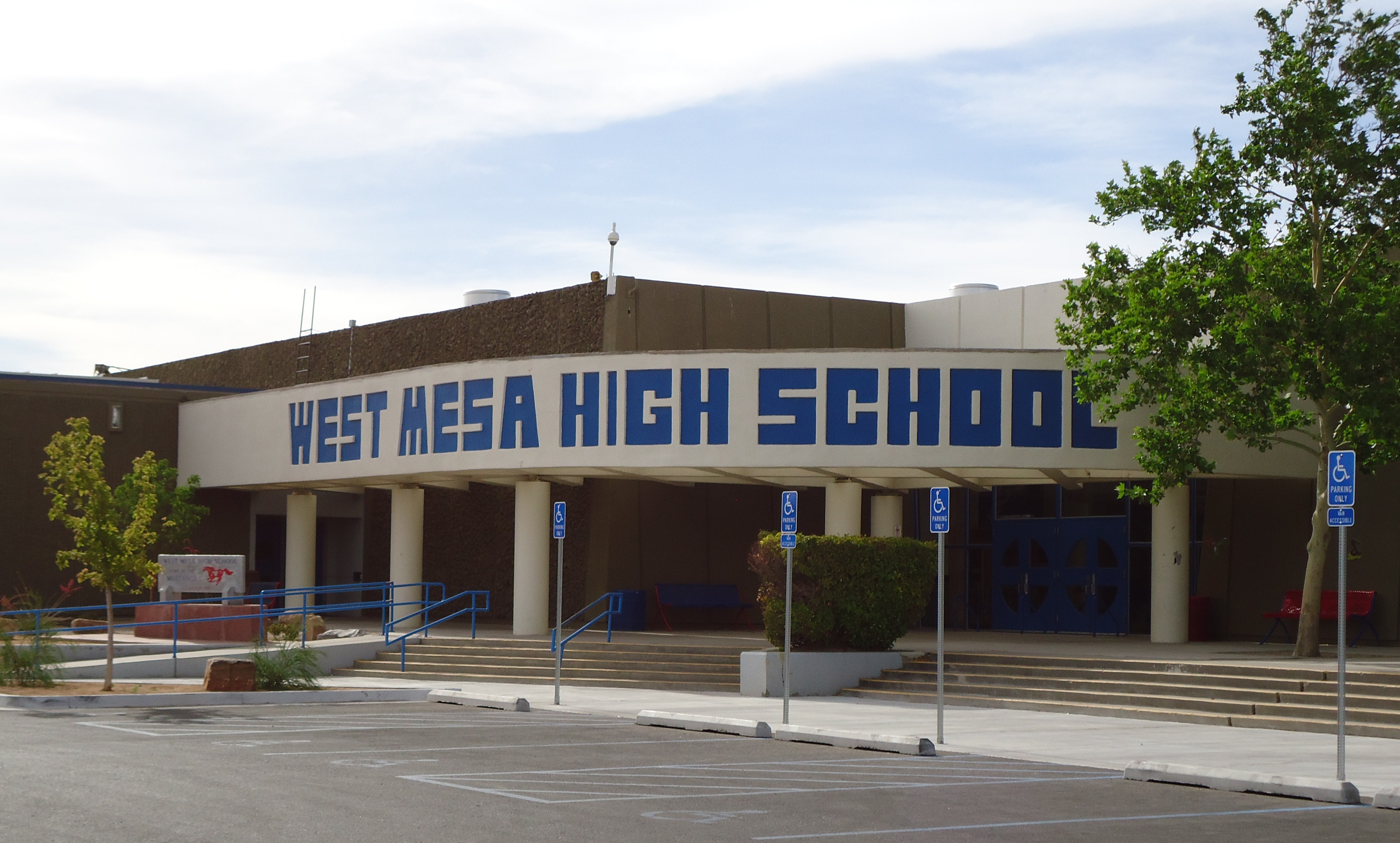 The entry way to West Mesa High School, in Albuquerque, New Mexico. It is the largest high school in terms of enrollment in the State of New Mexico.